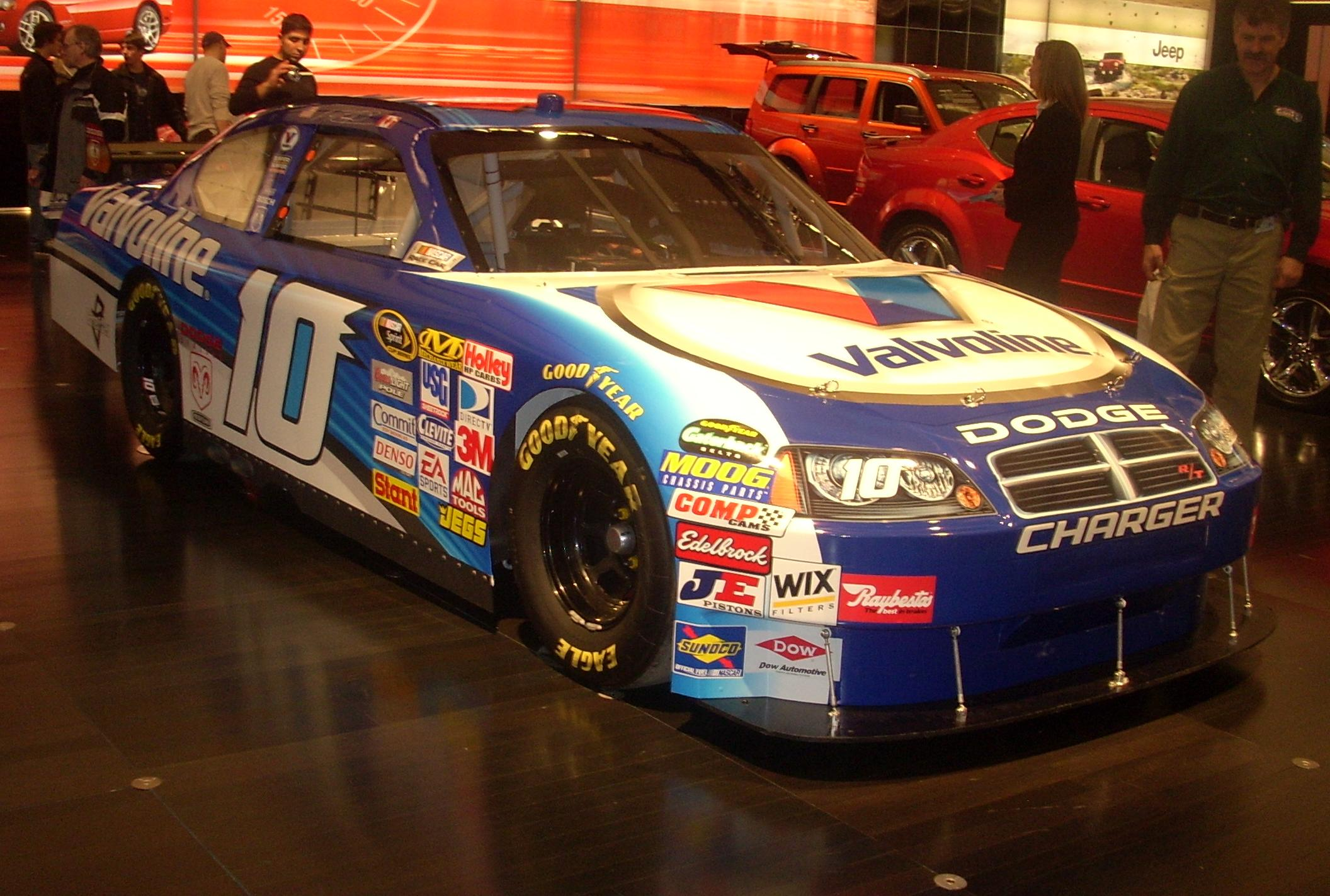 Dodge Charger NASCAR photographed at the Montreal Auto Show.